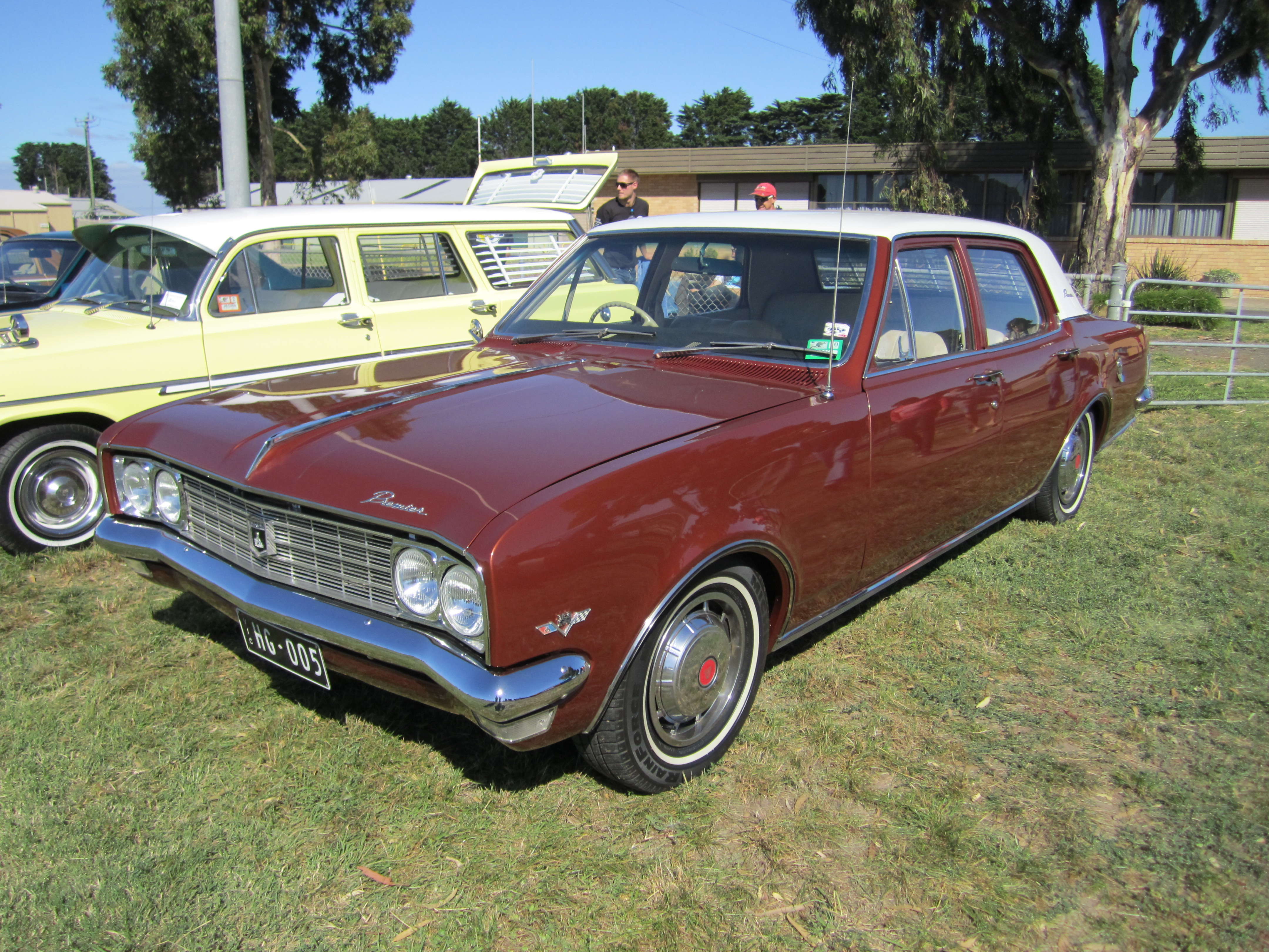 Built from July 1970-July 1971 Engines 161 & 186 6s & 253 & 308 V8s